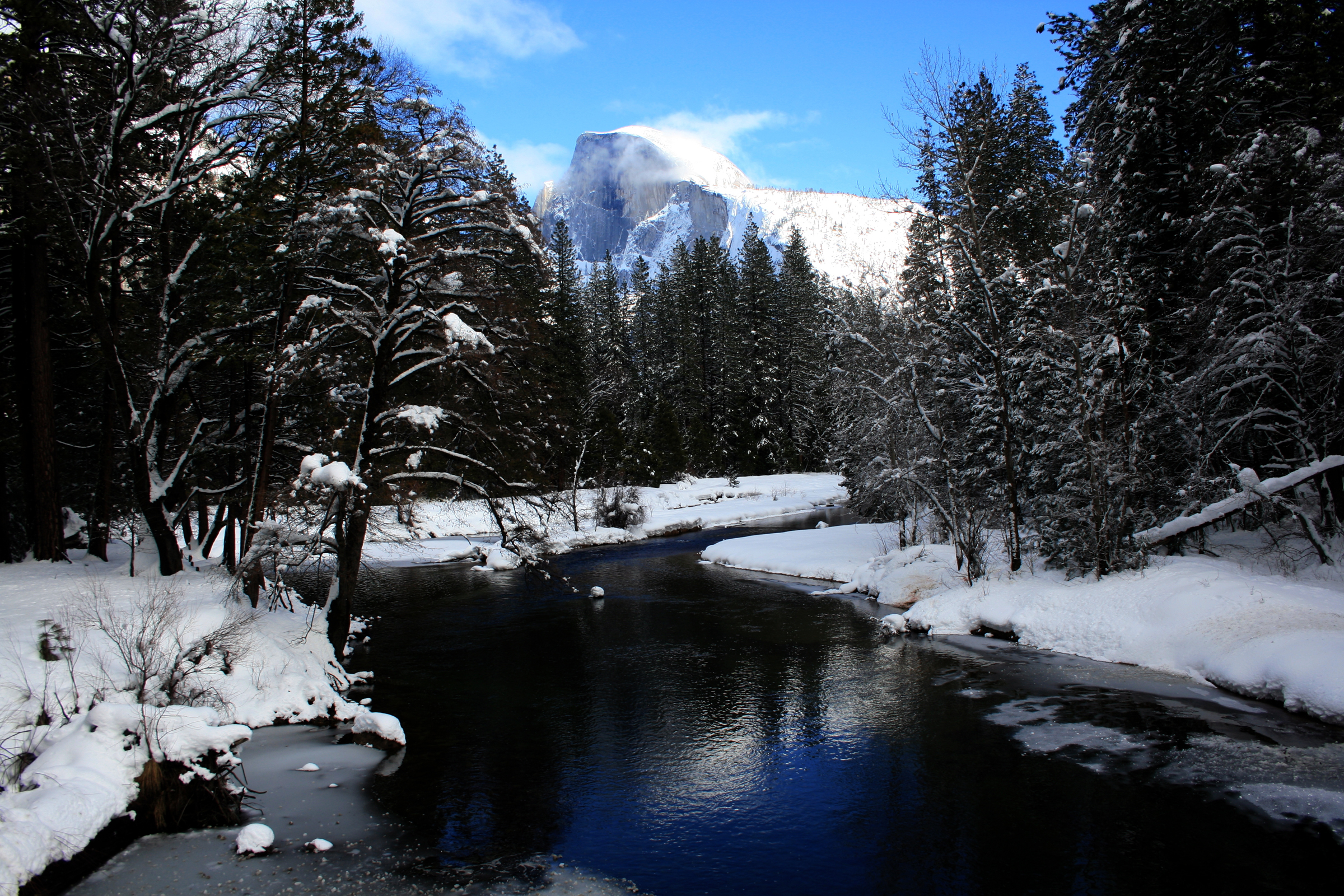 Half Dome